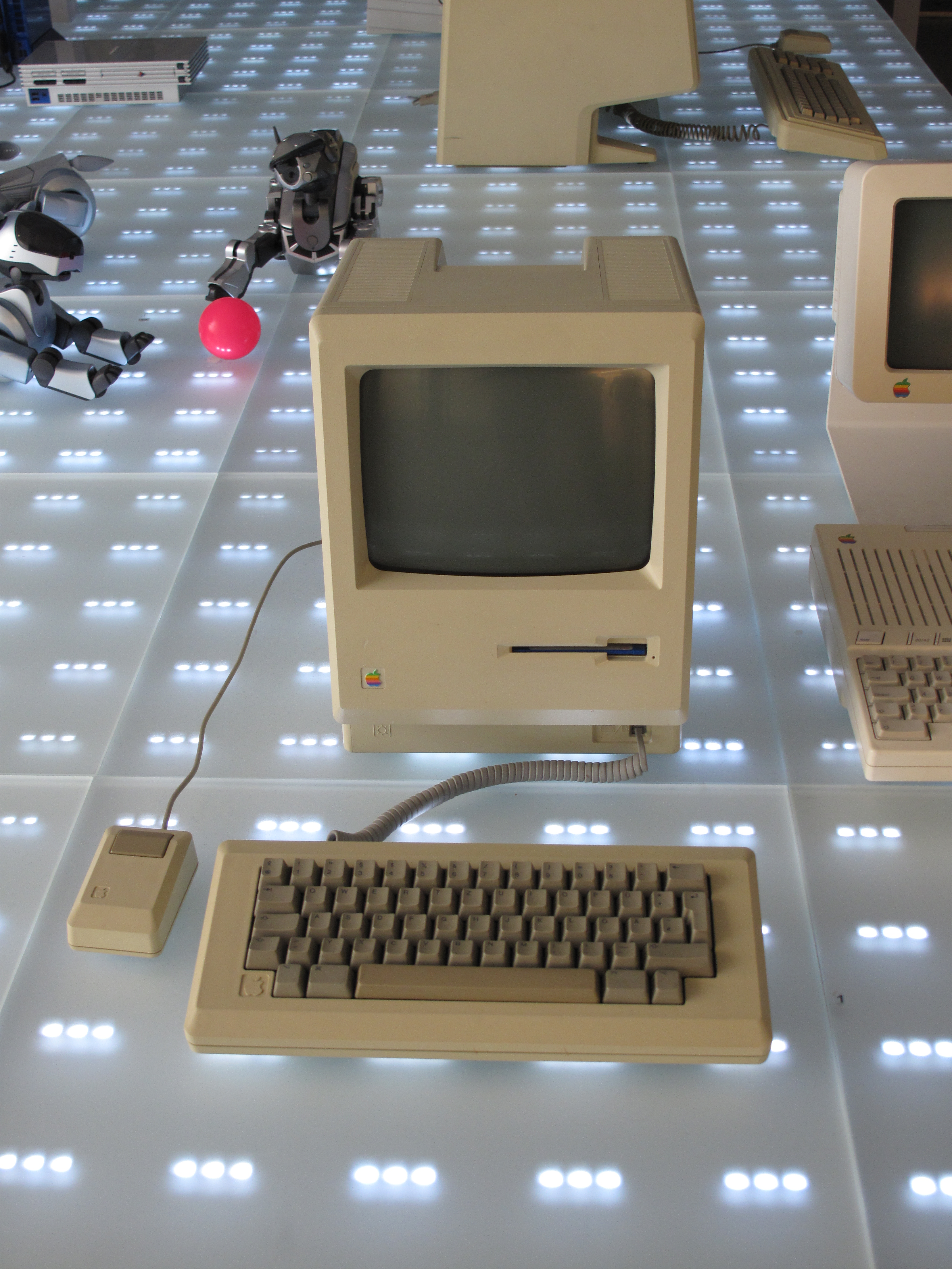 The Apple Macintosh 128, Personal Computer (1981) in the design-collection of the Pinakothek der Moderne in Munich.